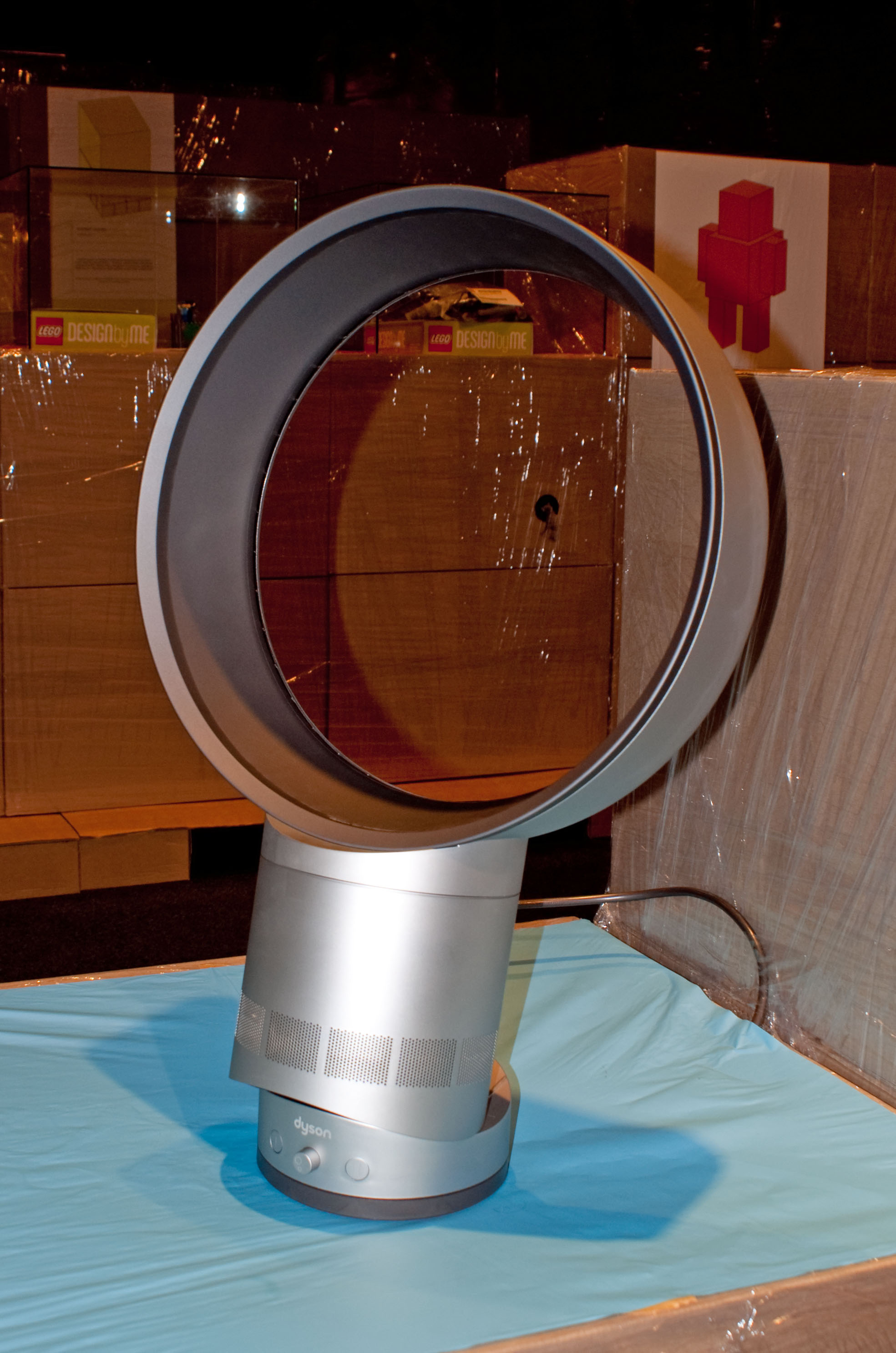 Dyson Air Multipier Fan, the world's first bladeless fan. "21 design stories" – exhibition at Institute of Industrial Design in Warsaw.